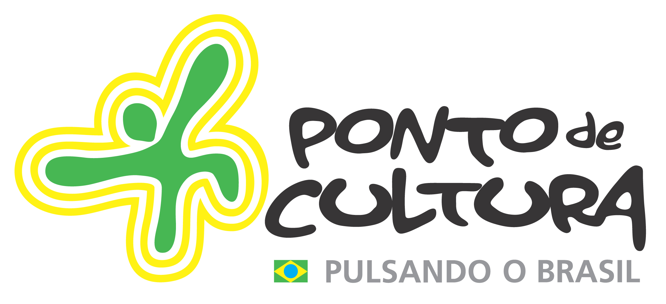 Ponto de Cultura - Pulsando o Brasil